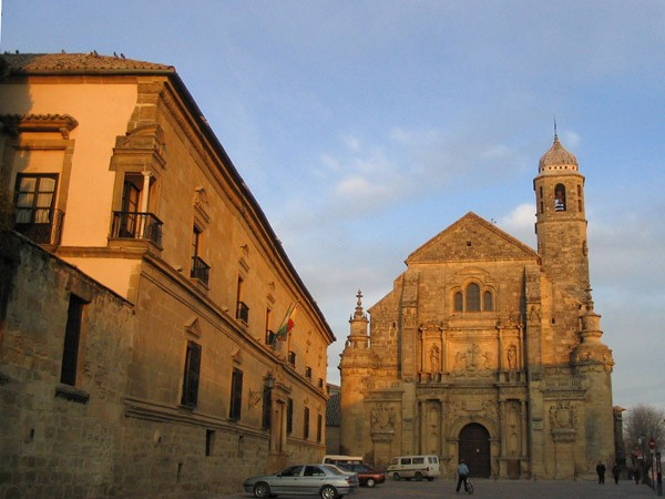 Sacra Capilla del Salvador and Palace of the Dean Ortega, in Úbeda. Photo made by Rafael Merelo